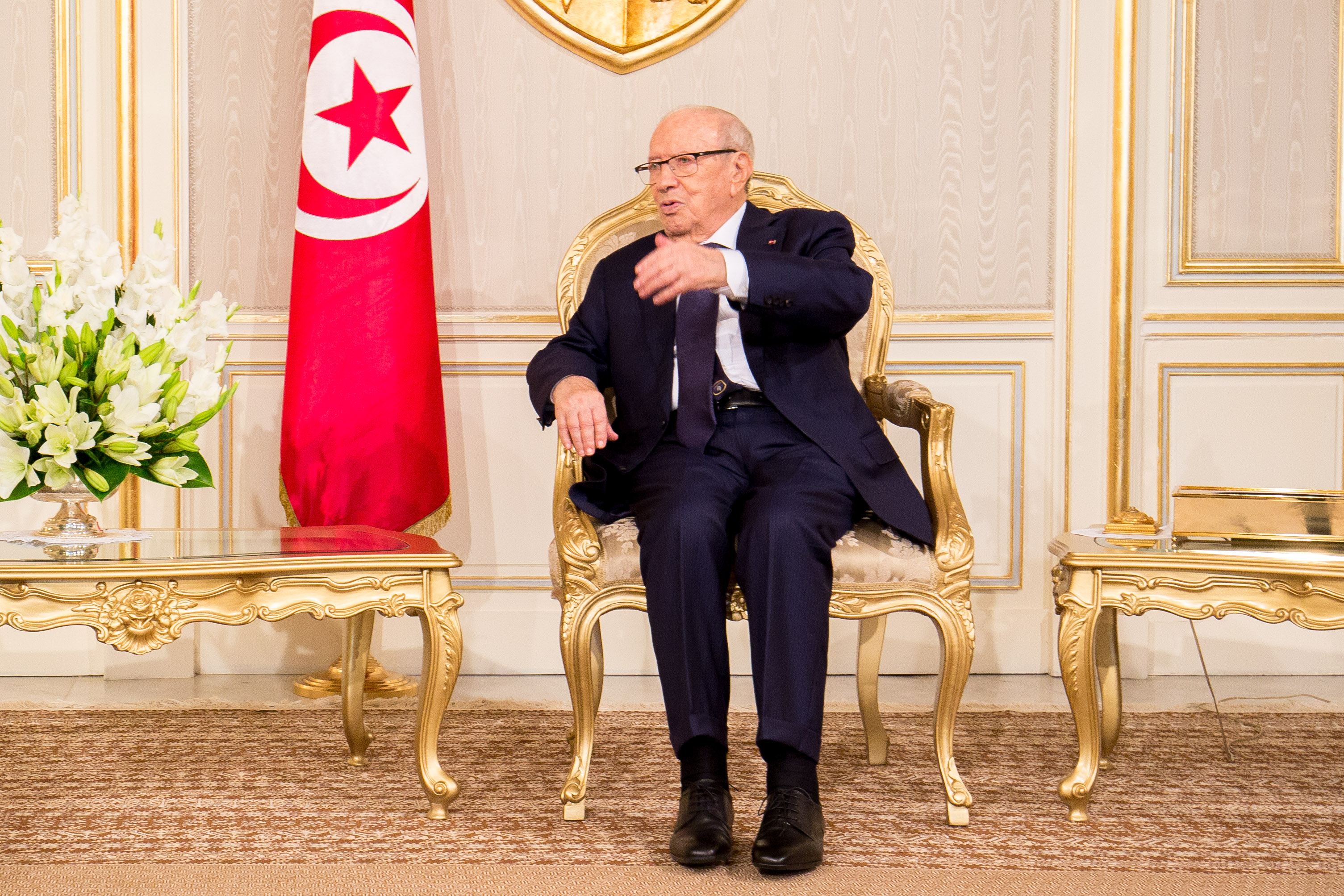 Beji Caid el Sebsi President of Tunisia, at the Presidential Palace, Carthage, Tunisia